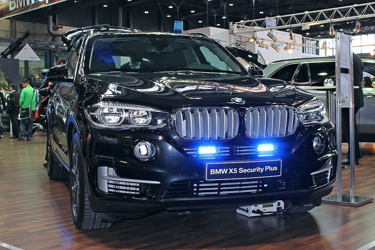 Typical German police undercover car with high security protection